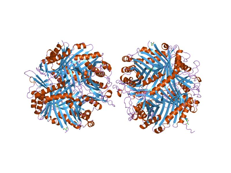 Cartoon representation of the molecular structure of protein registered with 1r56 code.